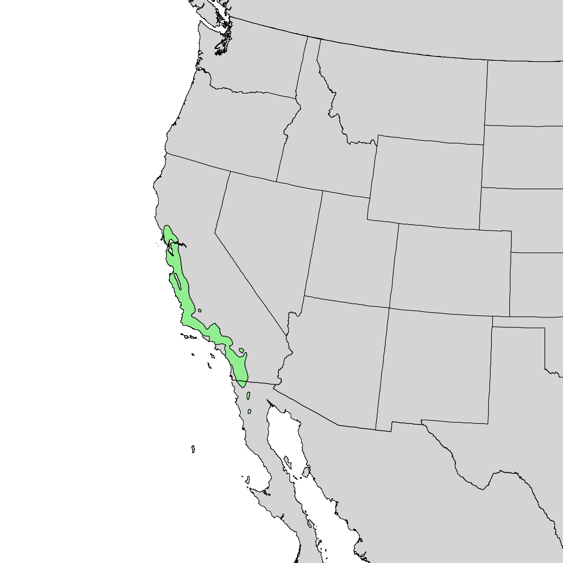 Quercus agrifolia (Coast live oak) natural distribution map.